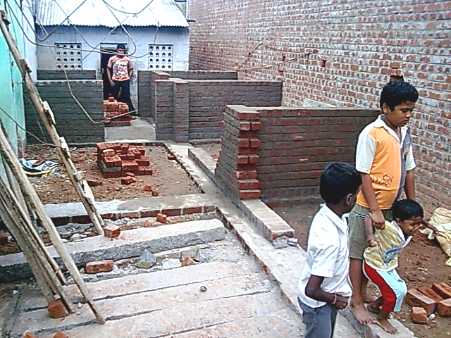 a home construction site in Tamil Nadu